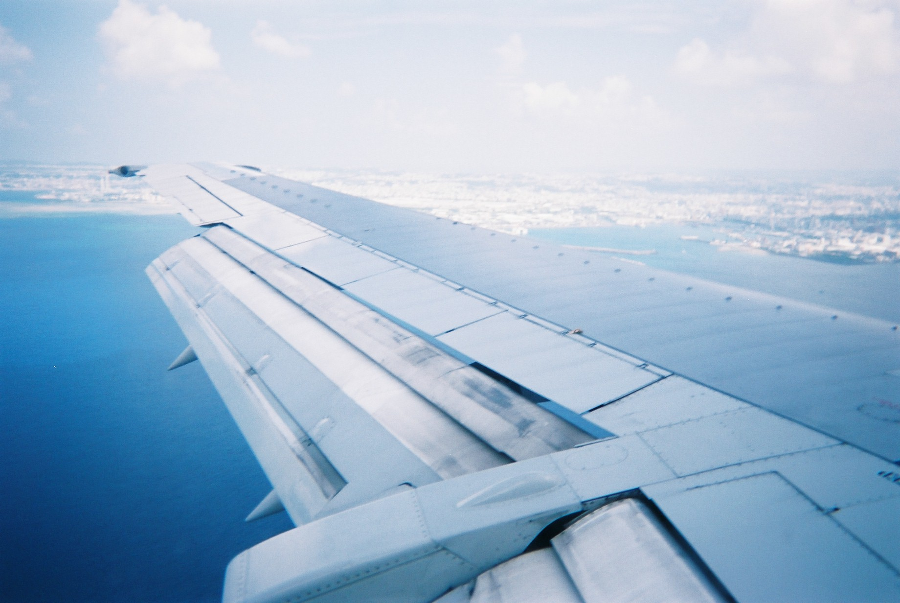 Flap. Boeing 737. Approach to Naha Airport.